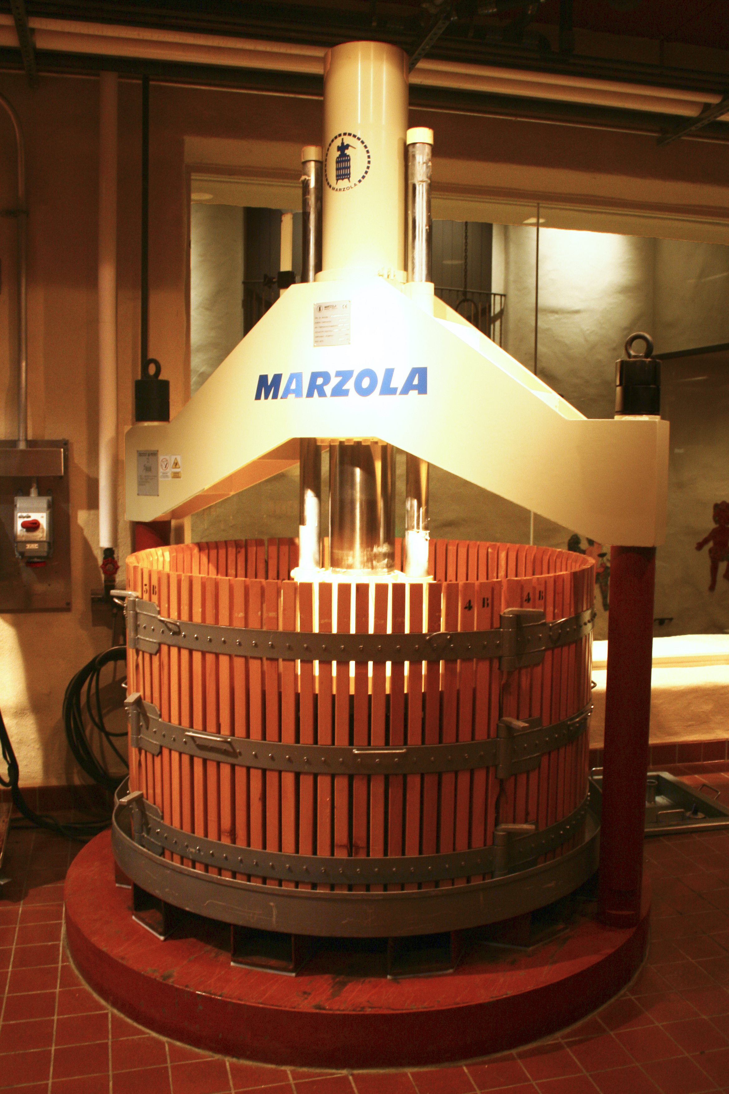 Wine Press at Robert Mondavi Vineyard, Oakville, California, USA (Napa Valley)